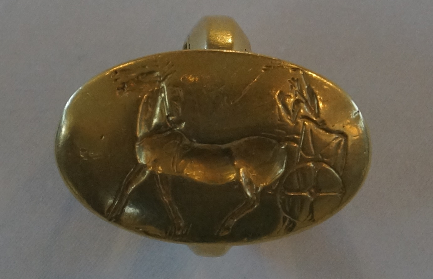 Archea Nemea, Corinthia, Greece: Mycenaean Gold Signet Ring MN 1005 showing a chariot. Part of the Repartriated Mycenaean Treasure of the Mycenaean cemetery of Aidonia in the Archaeological Museum of Nemea.